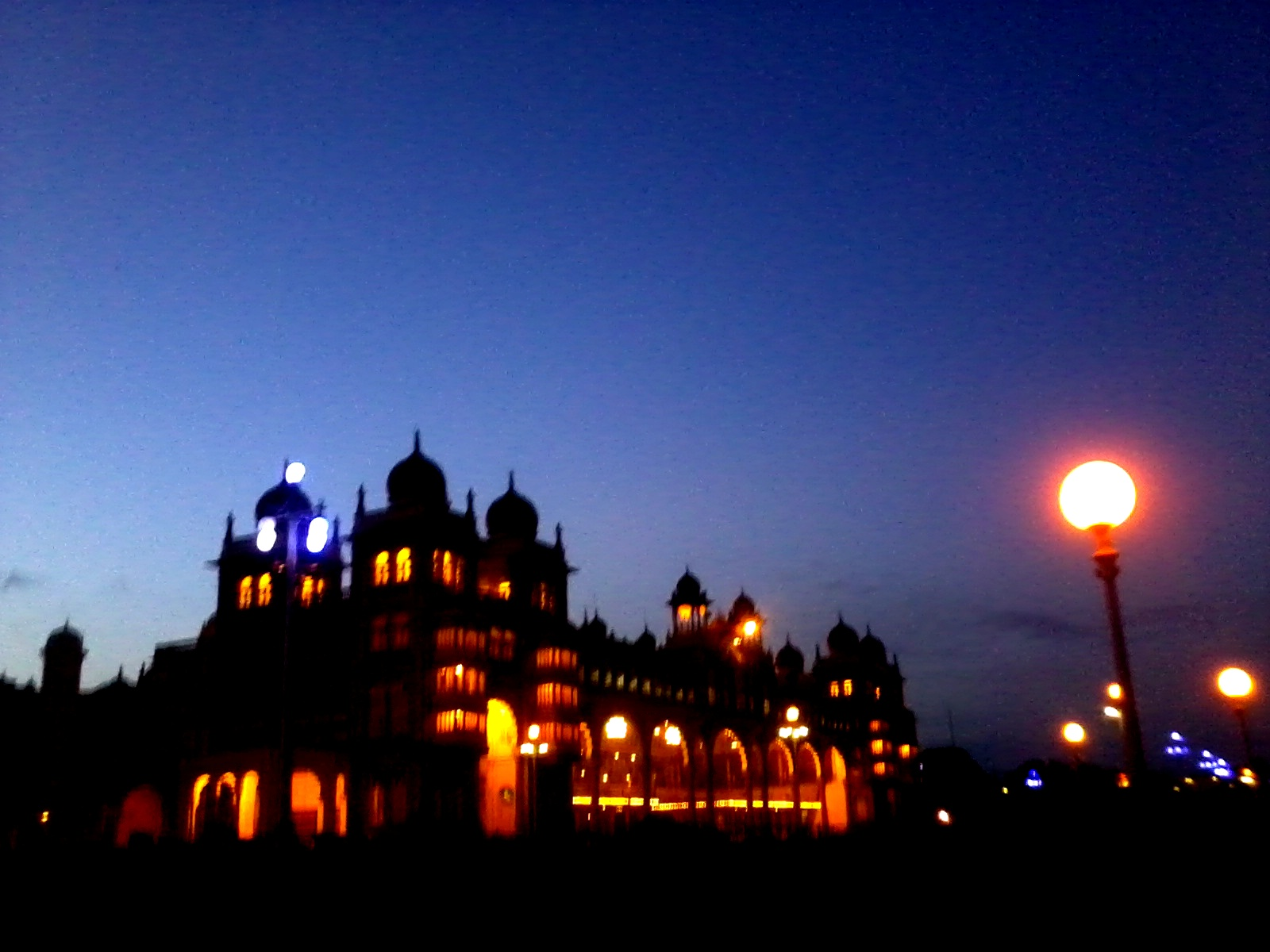 Palace in the evening